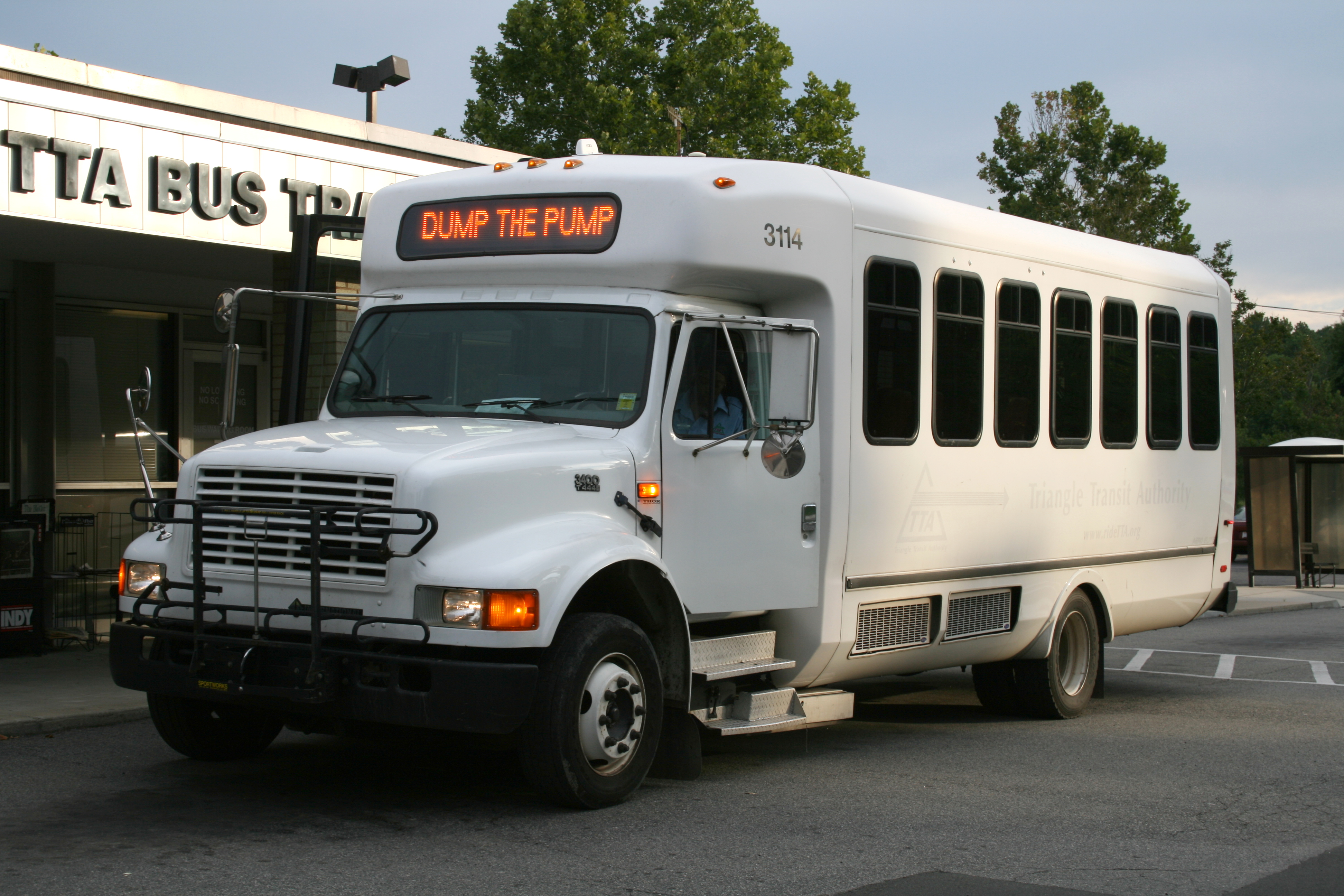 A Triangle Transit bus at the RTP terminal advertising dumping the pump as gas prices soar to unprecedented levels.